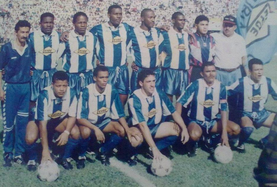 Champions